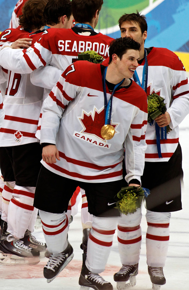 Canada forward Sidney Crosby celebrates with the gold medal after defeating the United States during the 2010 Winter Olympics